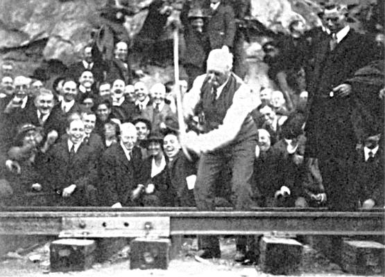 J.D. Spreckels driving the "golden spike" on the San Diego & Arizona Railway on November 15, 1919.